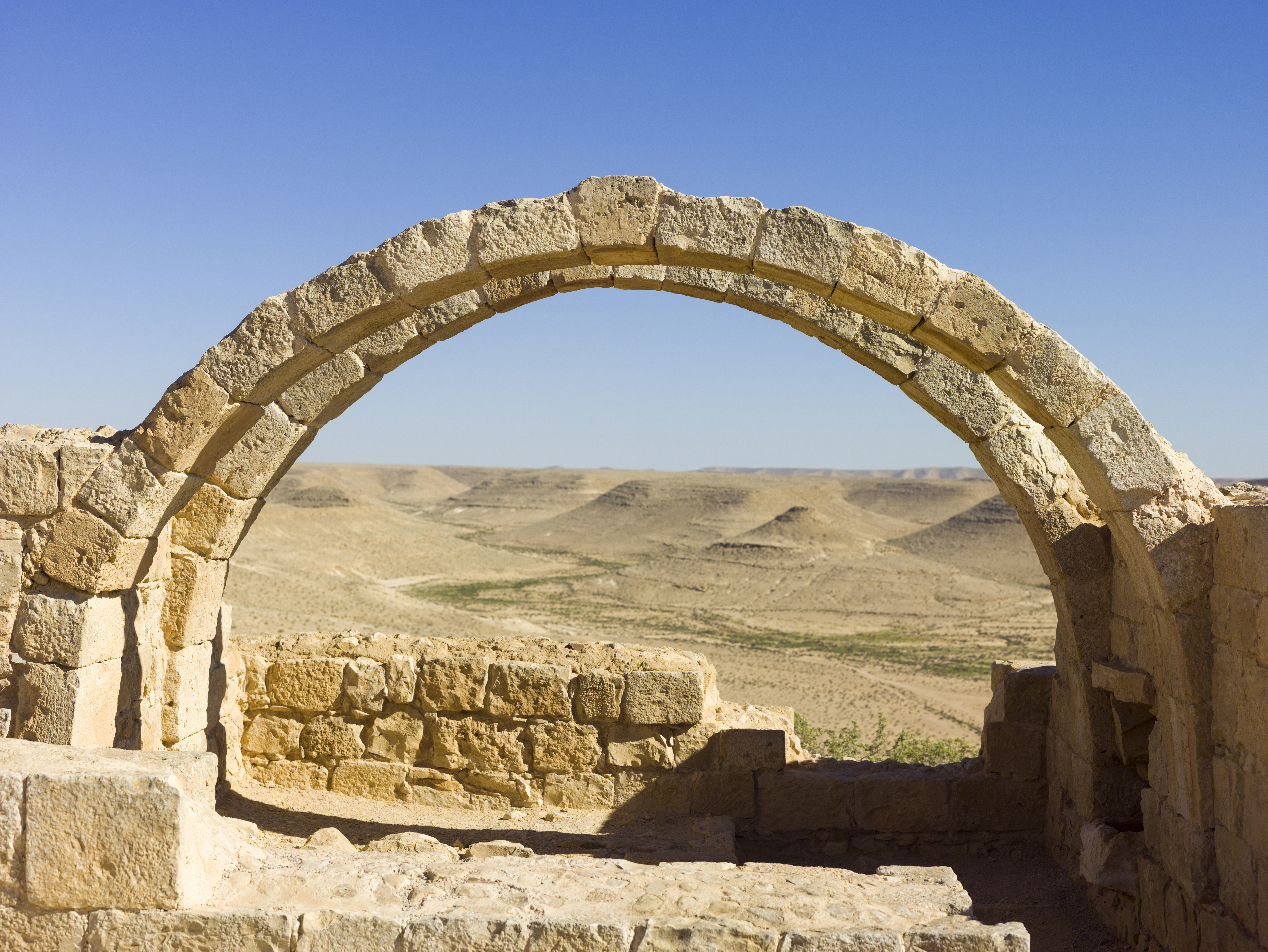 The southern villa arches of the ancient Nabataean City of Avdat (Hebrew: עבדת, from Arabic: عبدات, Abdat), in the Negev Highlands.